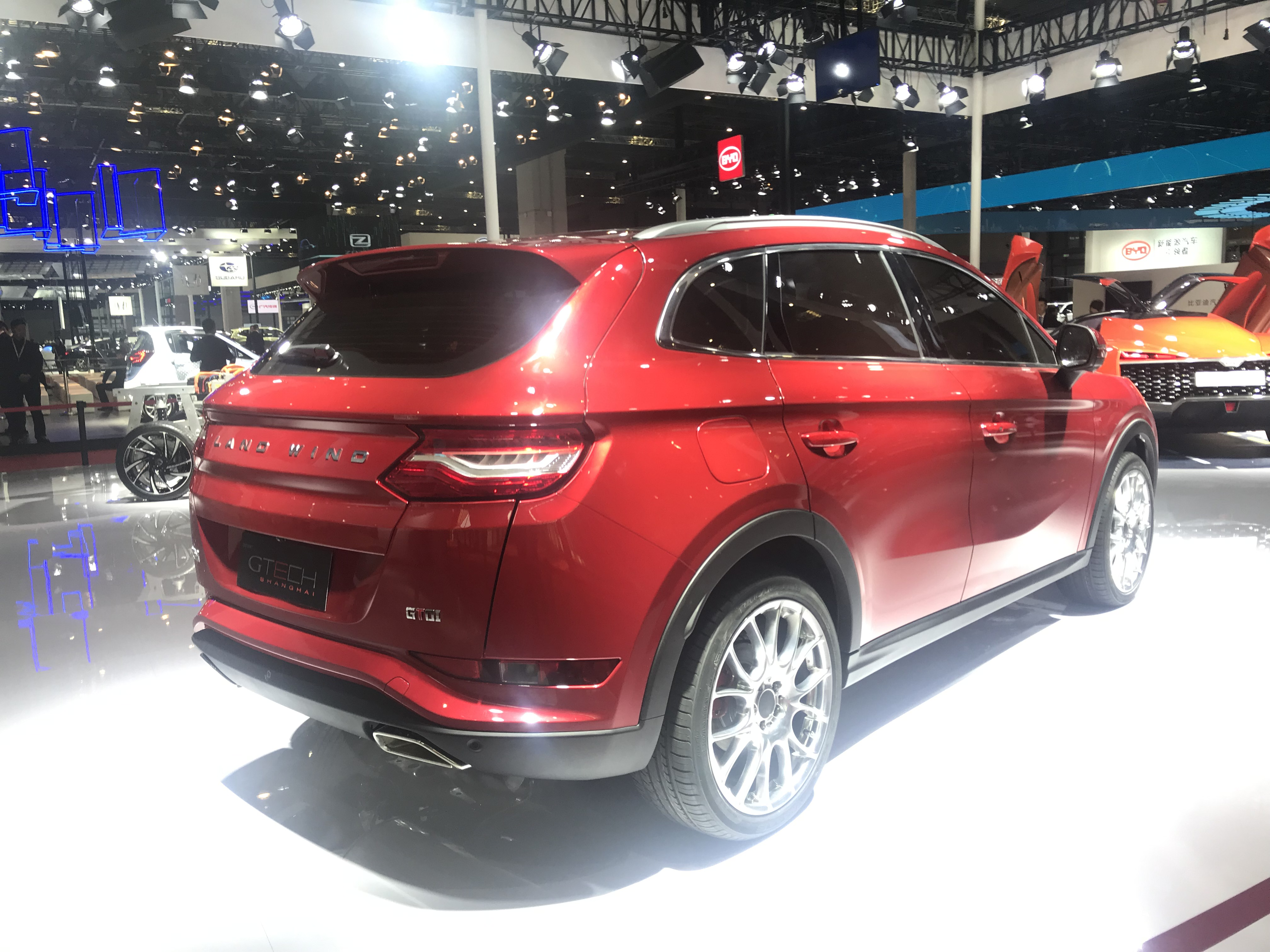 Landwind Rongyao rear